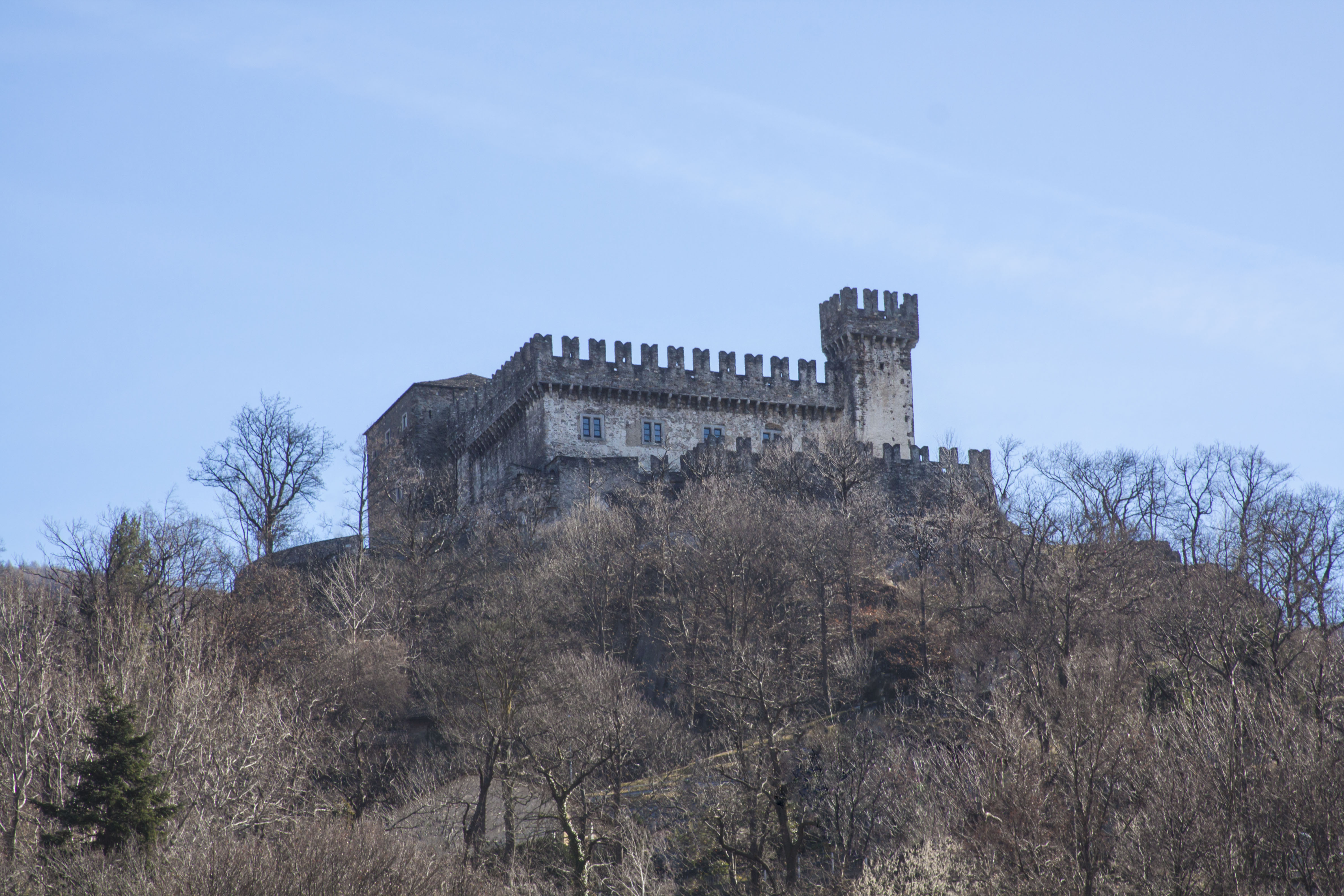 Castello di Sasso Corbaro